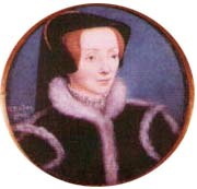 Watercolour miniature of Catherine Willoughby, Duchess of Suffolk by Hans Holbein, Collection of Baroness Willoughby de Eresby, before 1543